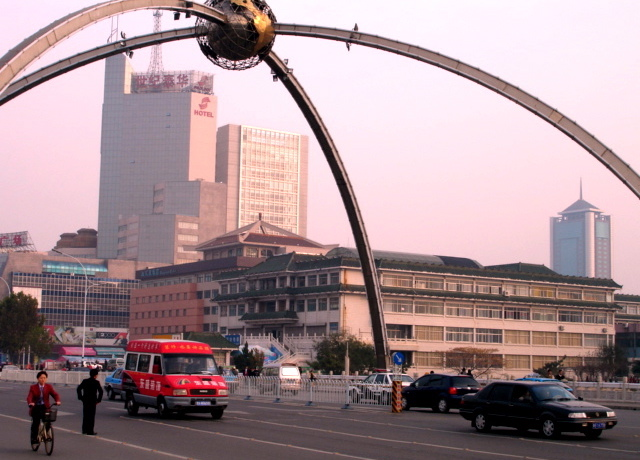 Downtown Weifang, Shandong, China. Image created by Kevin Smith on November 7, 2004